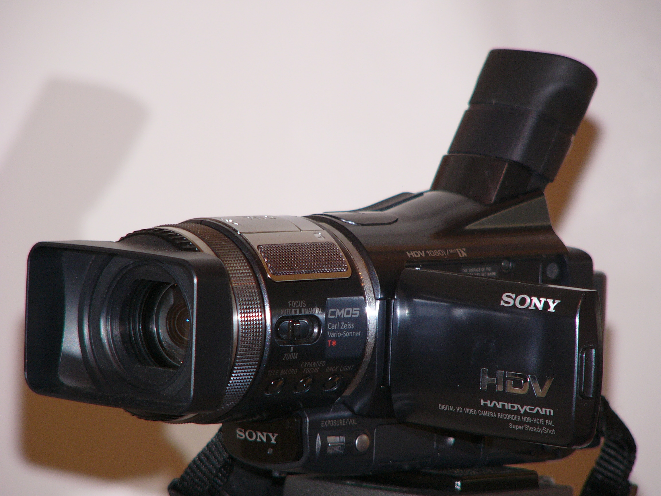 Sony HDR-HC1E Camcoder